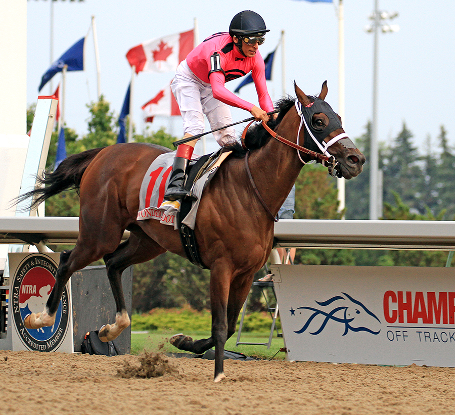 Wonder Gadot, winner of the 2018 Queen's Plate at Woodbine Racetrack, Toronto, Canada, June 30, 2018. Jockey John Velazquez aboard. Photographed by Mike F. Campbell (User:76wins).